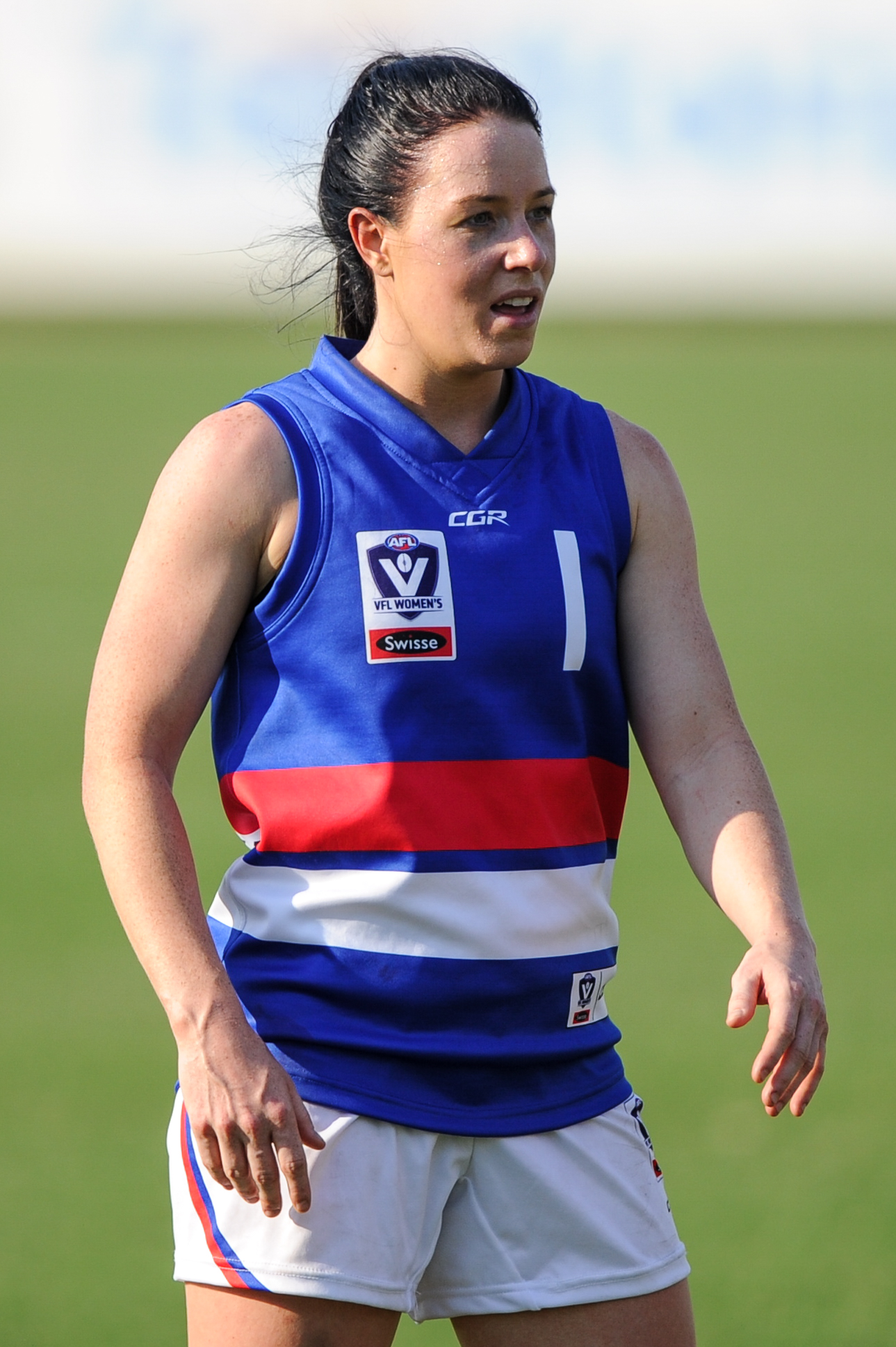 Brooke Lochland of Western Bulldogs during the 2018 VFLW round 5 match between NT Thunder and Western Bulldogs at TIO Stadium on Saturday, 2 June 2018 in Darwin, Australia.